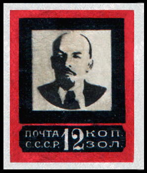 USSR stamp, Lenin's memories, 1924, 12 k.